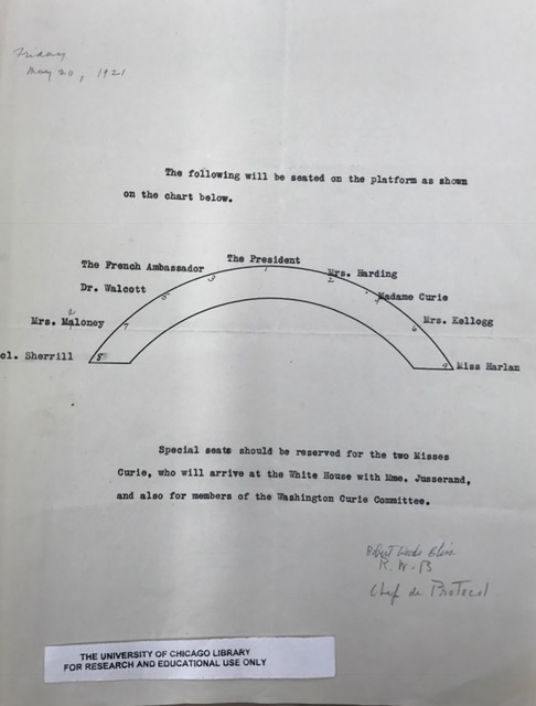 In this seating chart Charlotte Kellogg is designated to sit to the left of her dear friend Marie Curie, the guest of honor at the Radium Ceremony on May 20, 1921 in the East Wing of Warren G. Harding's White House